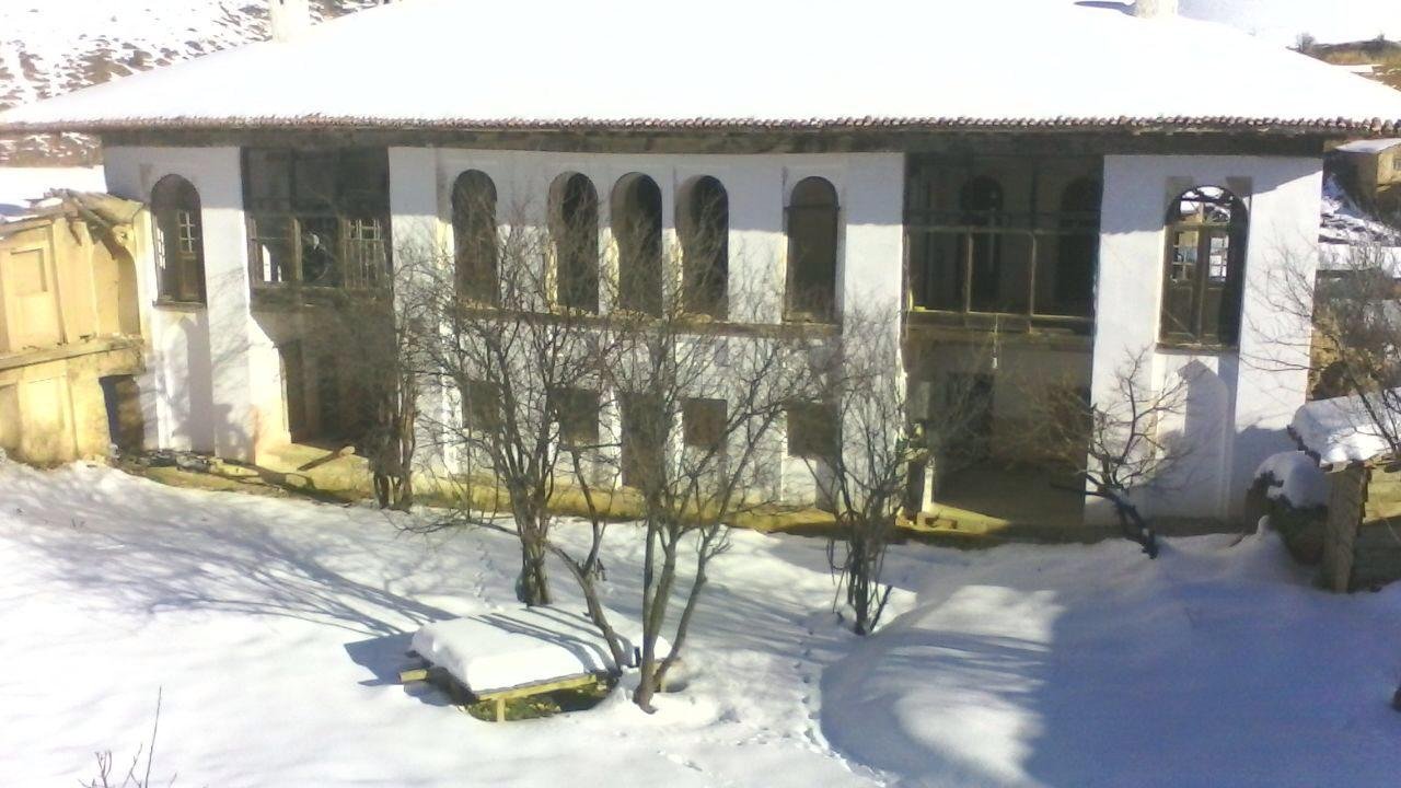 This is Shahryari building in Yaneh-Sar District.